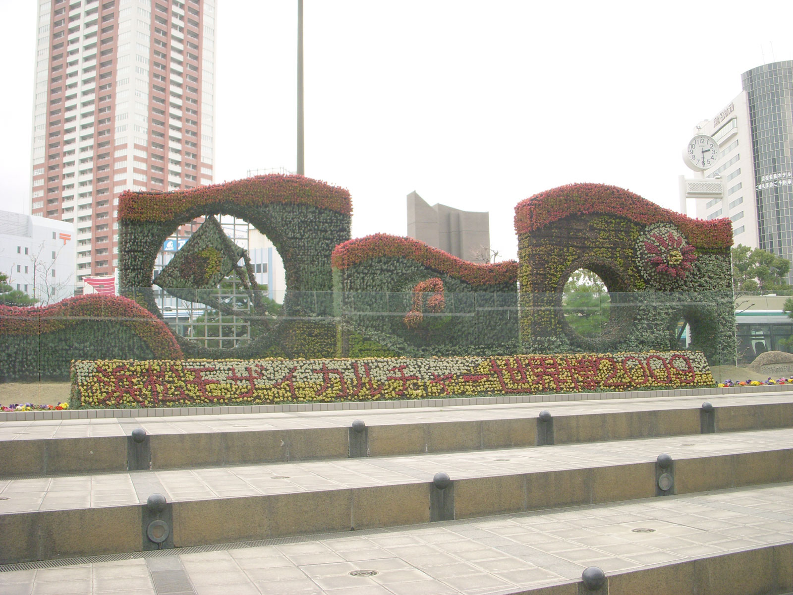 A monument to introduce "Hamamatsu International mosaiculture 2009" to which is started in September, 2009 in Hamamatsu-city, Shizuoka-pref. It is made with mosaiculture. It was installed in the Hamamatsu station square.Title:Kazeto-nami Desigin:Tamako OGURA